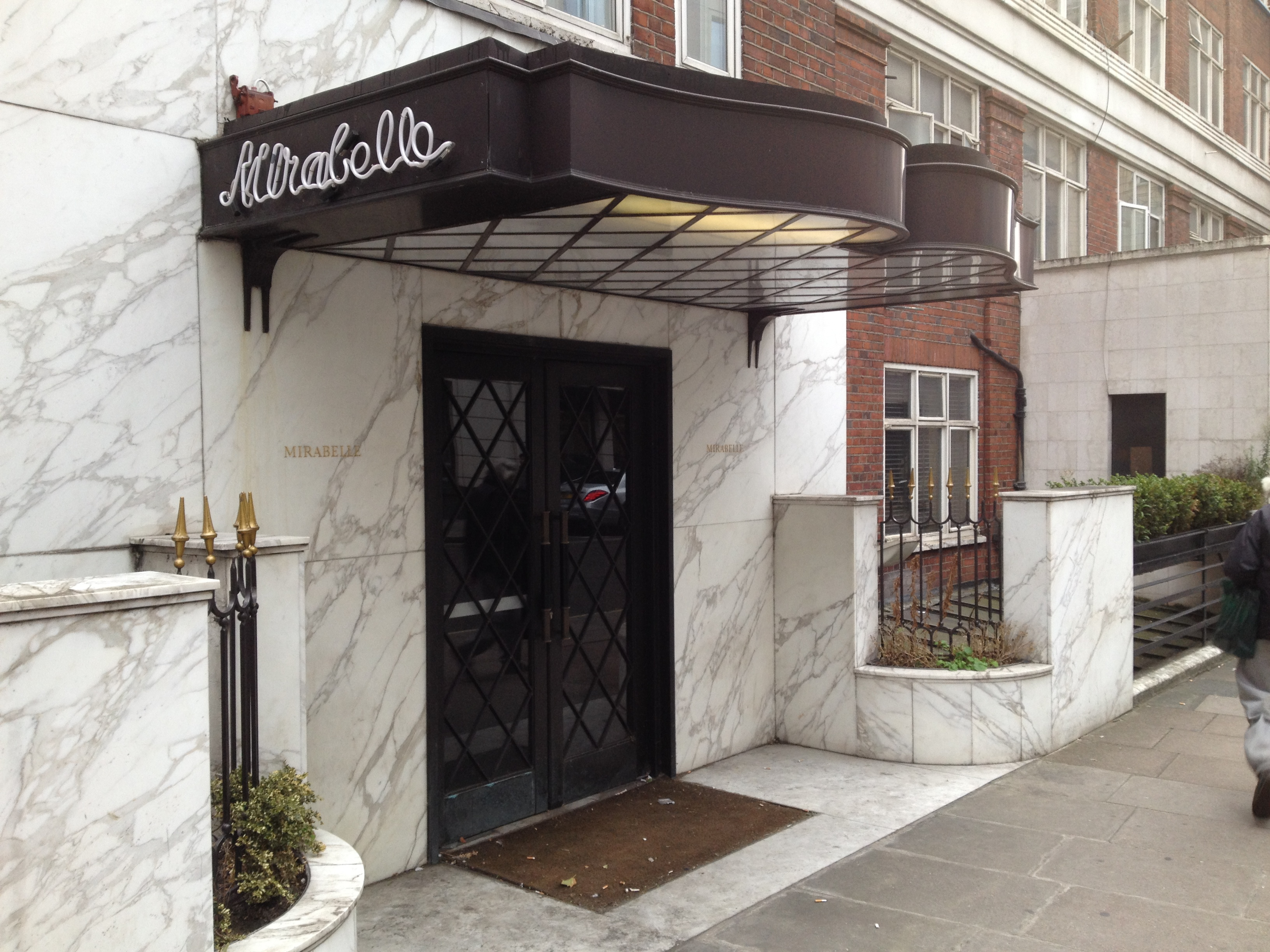 The outside of Mirabelle, previously a restaurant run by Marco Pierre White which closed several years ago. 56 Curzon Street.